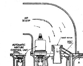 Bendix-Stromberg pressure carburetor boost bar, nozzles and AMC